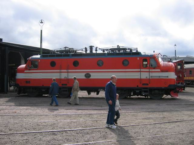 Swedish Railway class Ra, at the swedish railwaymuseum in Gävle september 11, 2004.